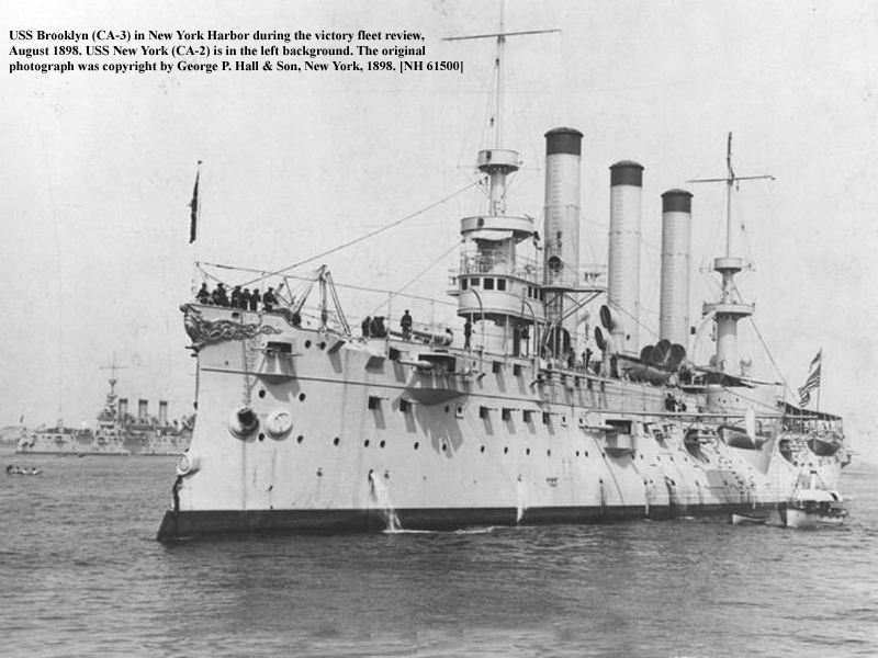 USS Brooklyn (CA-3) in New York Harbor during the victory fleet review, August, 1898. USS New York (CA-2) is in the left background.